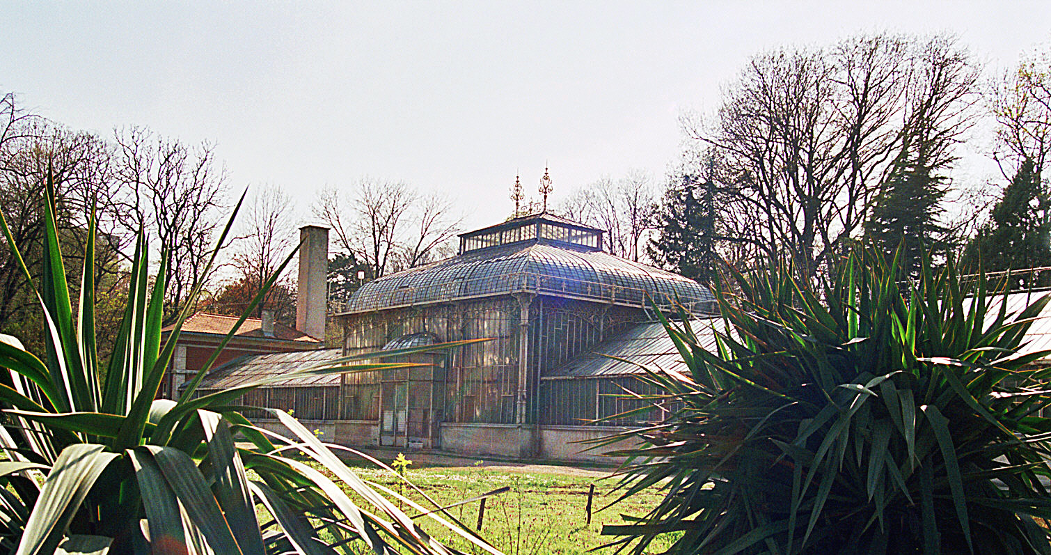 Conservatorium of botanical garden 'Jevremovac' (Belgrade)